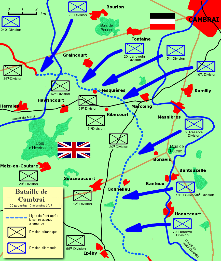 Battle of Cambrai (1917) : situation after the German counter-offensive.